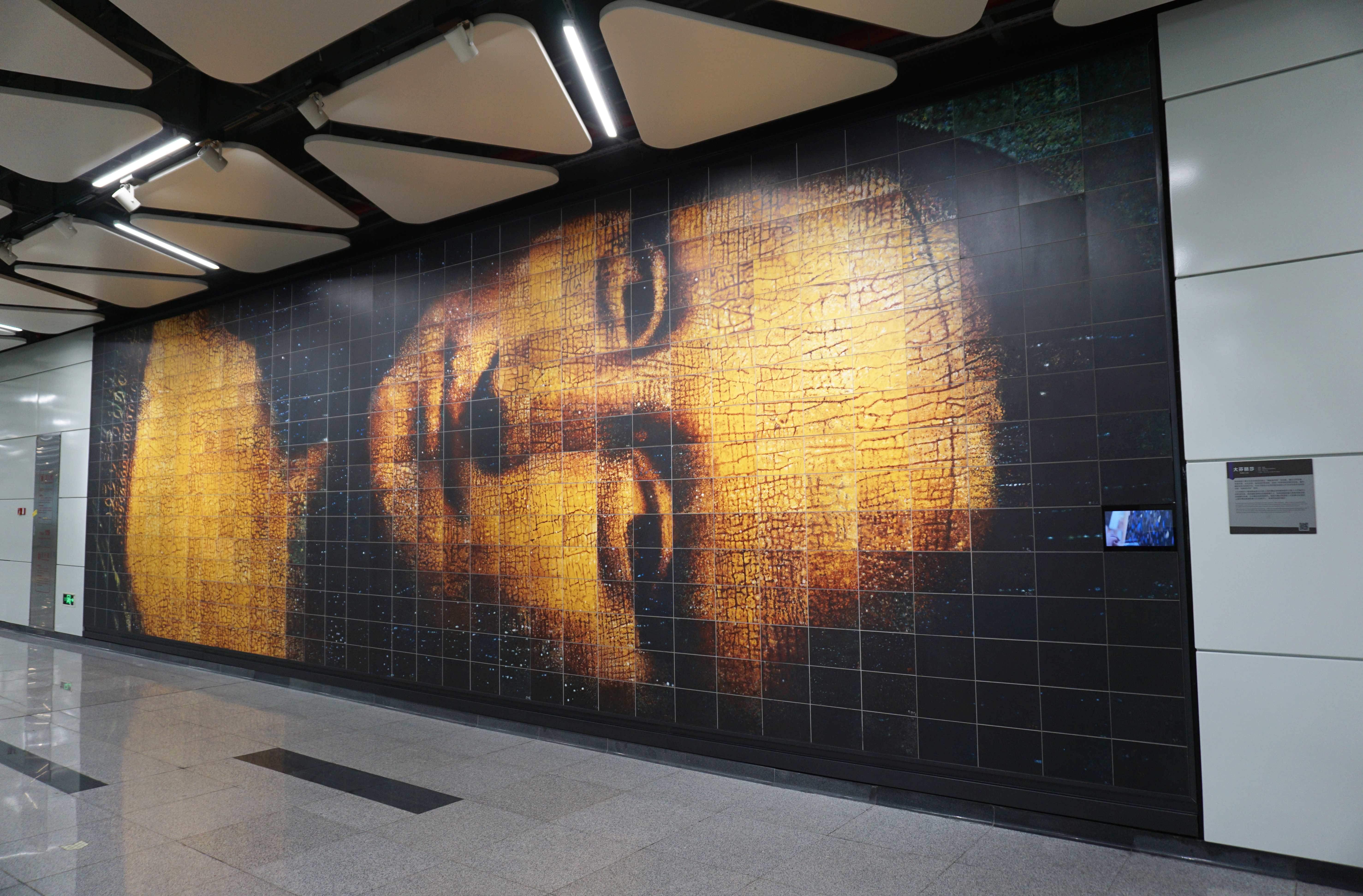 Airport North Station in Fuyong, Shenzhen.